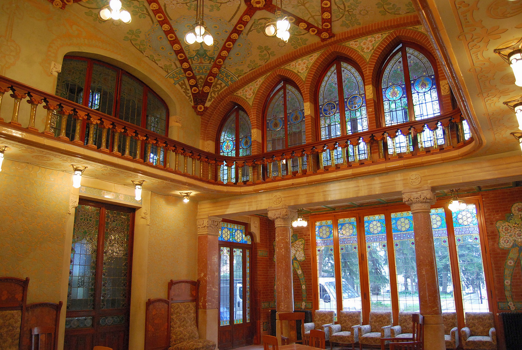 Institut Pere Mata, psychatric hospital. Lluís Domènech i Montaner, architect. 1897-1912, Reus (Catalonia)